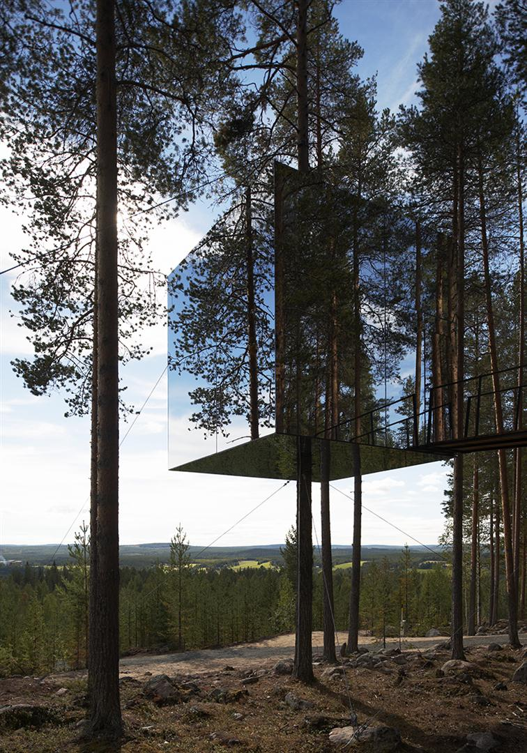 Treehotel 2008-2010, Tham & Videgård Arkitekter